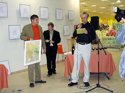 Estonian Artist Nerva presenting his painting on the art performance "Wet Paint!", 2005